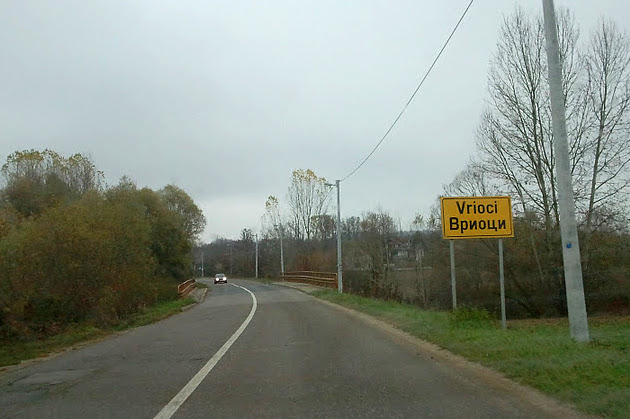 Vrioci village, Republika Srpska, BiH.